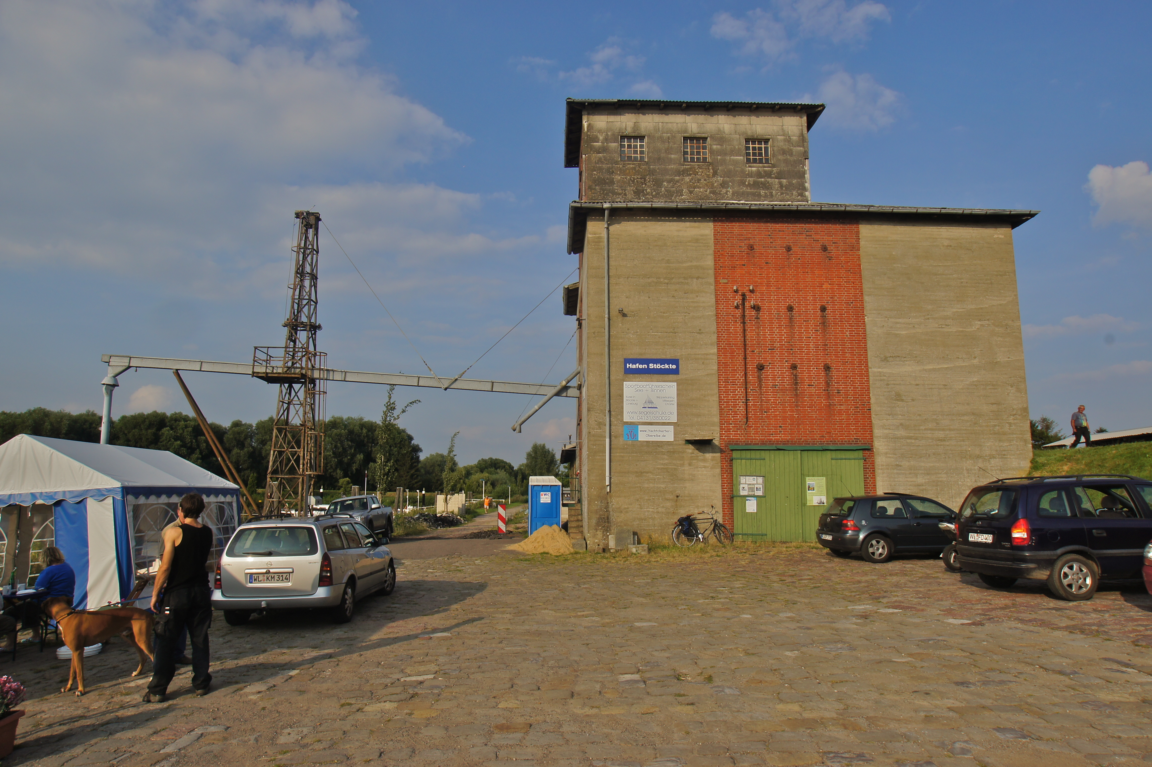 Winsen (Luhe) (Stöckte), Germany: Grain elevator in the Port on the Ilmenau river